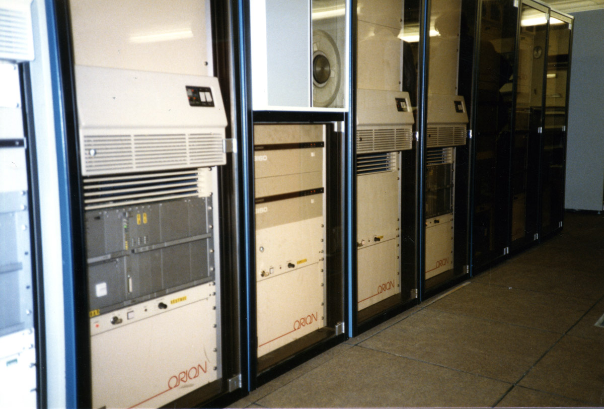 A bank of High Level Hardware Limited, Orion super-minicomputers at Kent University, U.K.